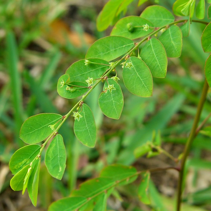 Scientific Name: Phyllanthus tenellus Roxb. Common Name: Mascarenes Leafflower Certainty: positive (notes) Location: Florida Keys; Upper Keys; Buttonwood Bay Date: 20061210